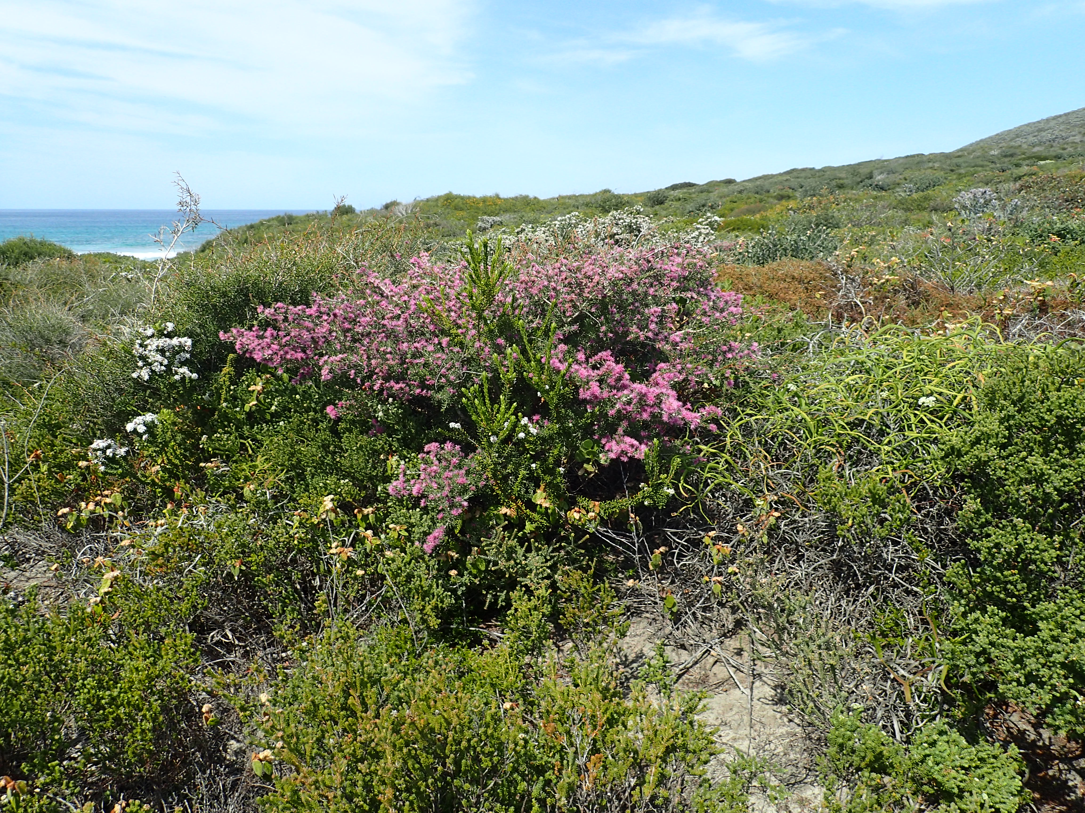 Melaleuca papillosa habit, near Mylies Beach in the Fitzgerald River National Park